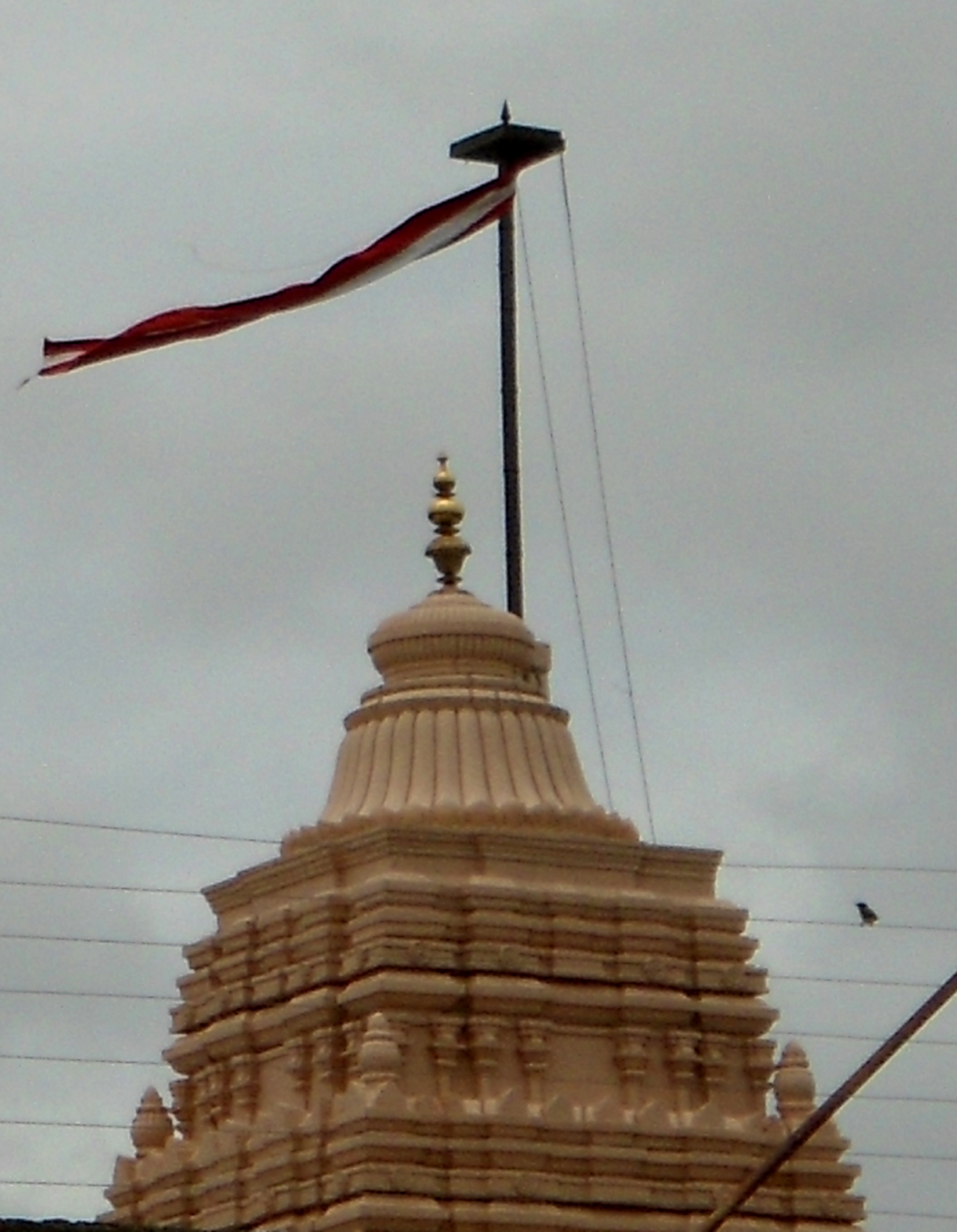 Kulpakji also Kolanupaka Temple is a Jain shrine at the village of Kolanupaka in Nalgonda district, Andhra Pradesh, India